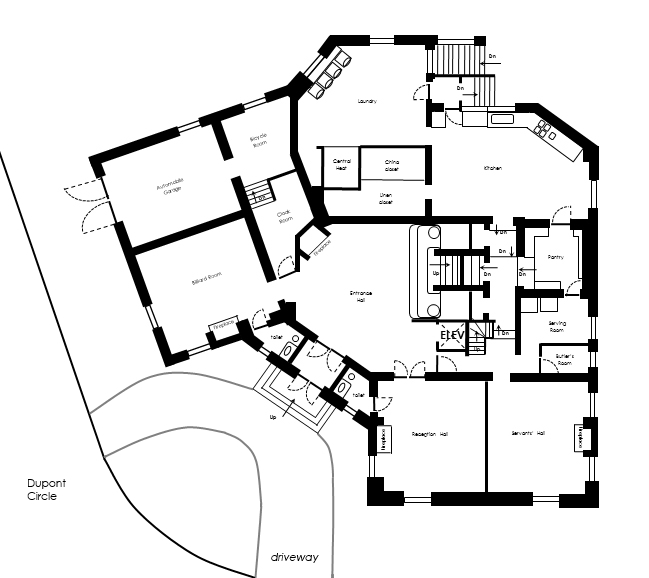 Original plan of the ground floor of the Patterson Mansion, a four-story Neoclassical residence located on Dupont Circle in Washington, D.C., in the United States. It was built in 1902, and designed by architect Stanford White for Nellie Patterson. For most of its first half-century, it was occupied by Elinor Medilla "Cissy" Patterson, the publisher and editor of the Washington Times-Herald newspaper. After her death in 1948, it was deeded to the American Red Cross. The Red Cross sold it to the Washington Club in 1951. The Washington Club sold it in 2013 to French Quarter Hospitality, a boutique hotel company. The mansion was added to the National Register of Historic Places on December 5, 1972. It is a contributing property to both the Dupont Circle Historic District (added to the National Register in 1978) and the Massachusetts Avenue Historic District (added to the National Register in 1974).